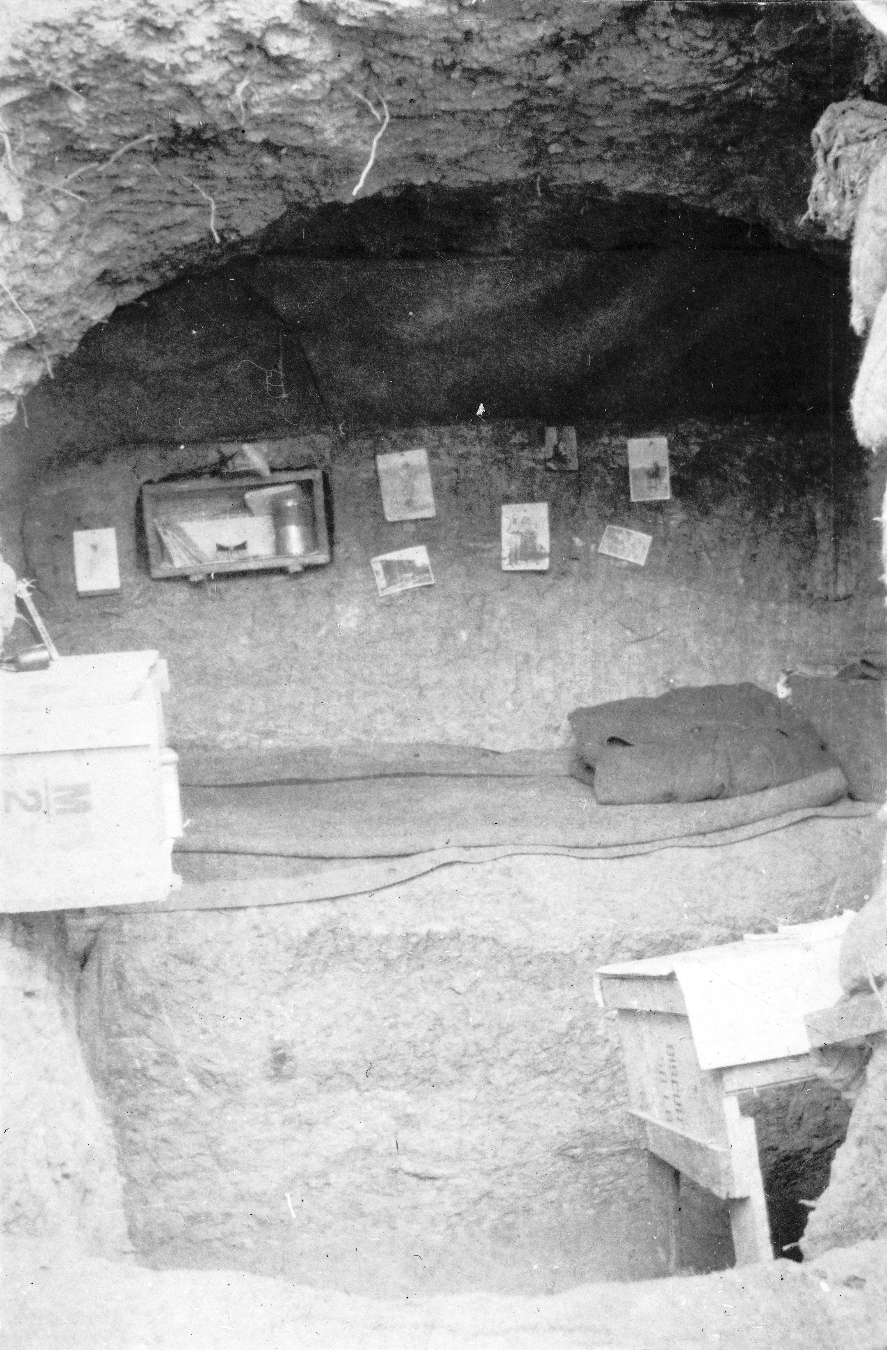 Unidentified photographer Interior of George Denniston's dug-out, Gallipoli, Turkey, 1915 Reference Number: PA1-o-863-07-6 Silver gelatin print Photographic Archive, Alexander Turnbull Library See a zoomable image on our Timeframes website